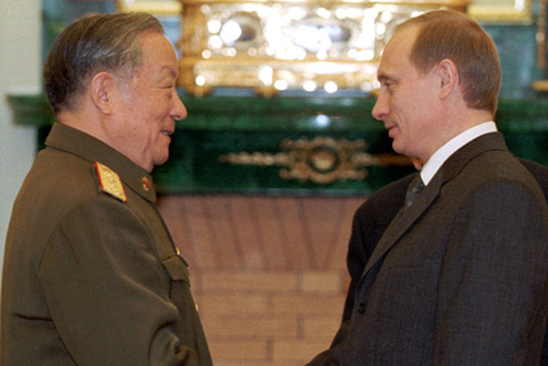 THE KREMLIN, MOSCOW. With China's Minister of National Defence, General Chi Haotian, Deputy Chairman of the Central Military Commission of China.